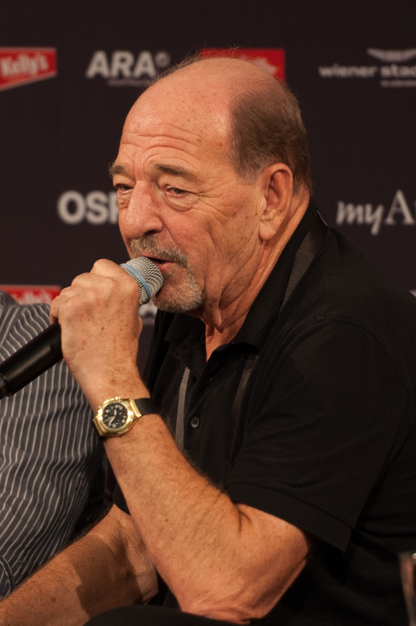 Eurovision Song Contest Vienna 2015: Ralph Siegel